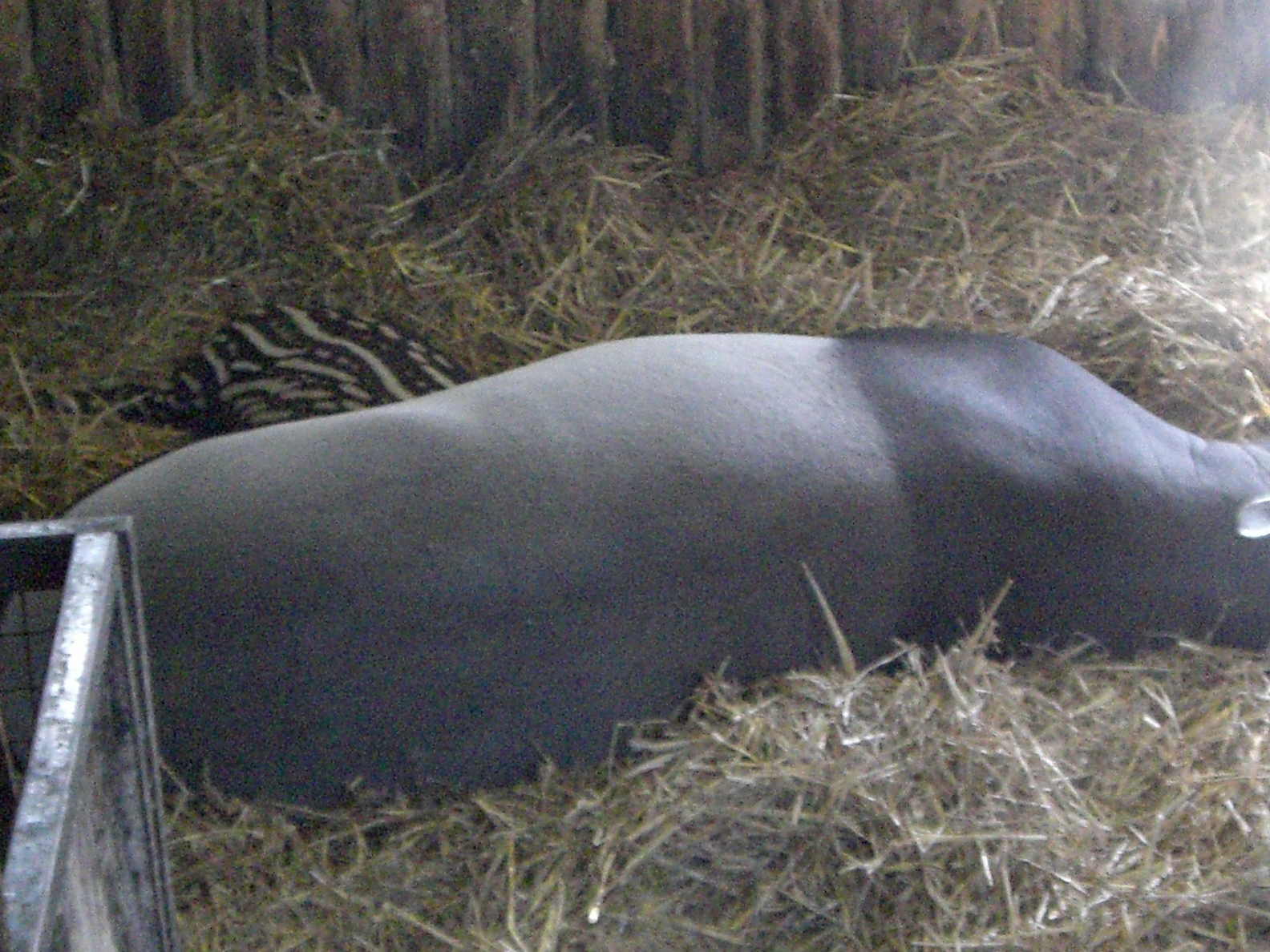 A juvenile Tapirus indicus (Malayan Tapir), asleep behind its mother. The mottled white-and-brown markings can be seen clearly, and compared to the plain markings of the adult. Photographed at Edinburgh Zoo.